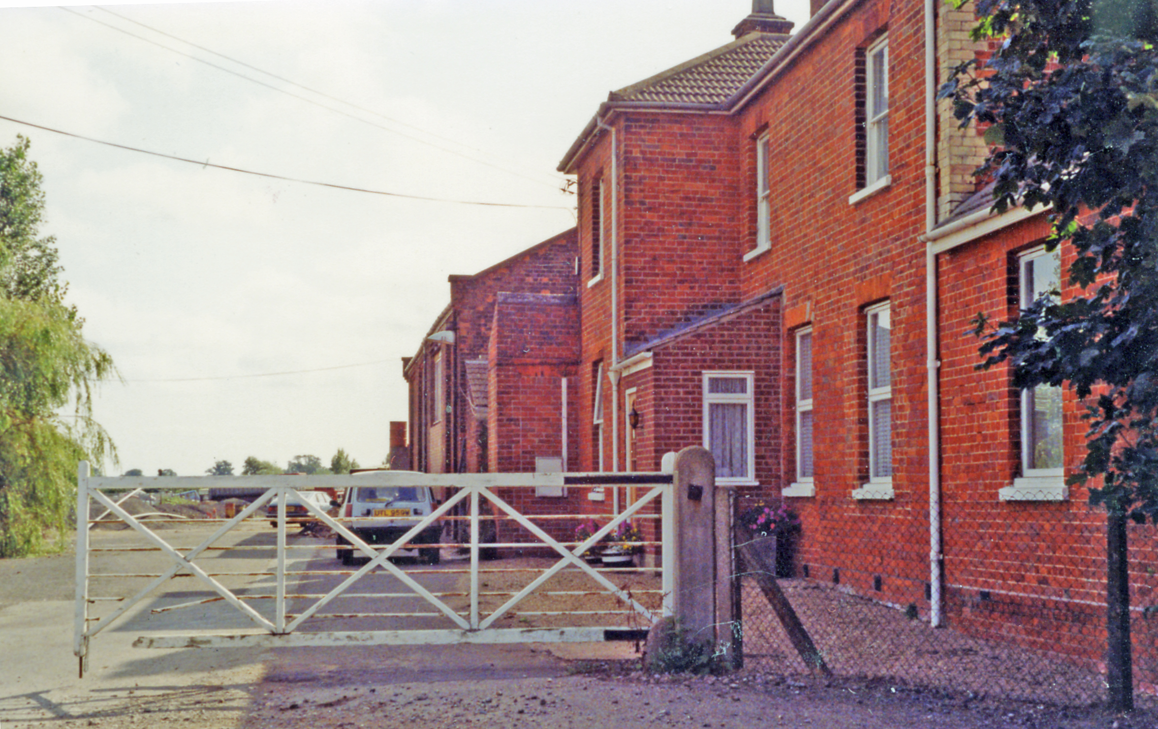 Former Fleet station. View eastward, towards Sutton Bridge, South Lynn etc.: ex-Midland & Great Northern Joint, Peterborough - Sutton Bridge line, serving no passengers since 2/3/59 when almost the whole M&GN system was closed, but not for goods until 3/2/64, through freight Bourne - Sutton Bridge continuing until 5/4/65. This station seems to have long ago been restored for a farm [- the owner came out and remonstrated with me when I took this photograph without permission!]